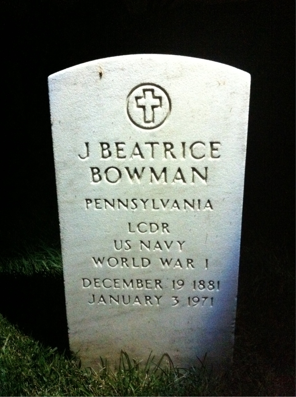 Grave of Josephine Beatrice Bowman at Arlington National Cemetery